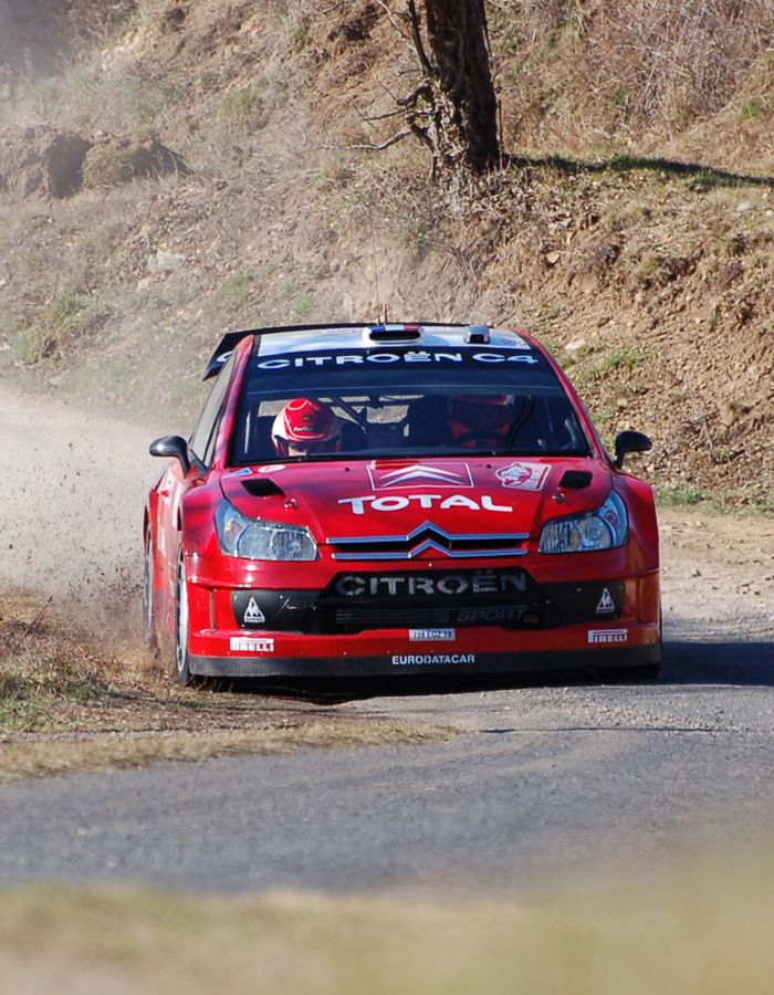 Loeb-Elena winner of Rallye de Monte-Carlo 2008